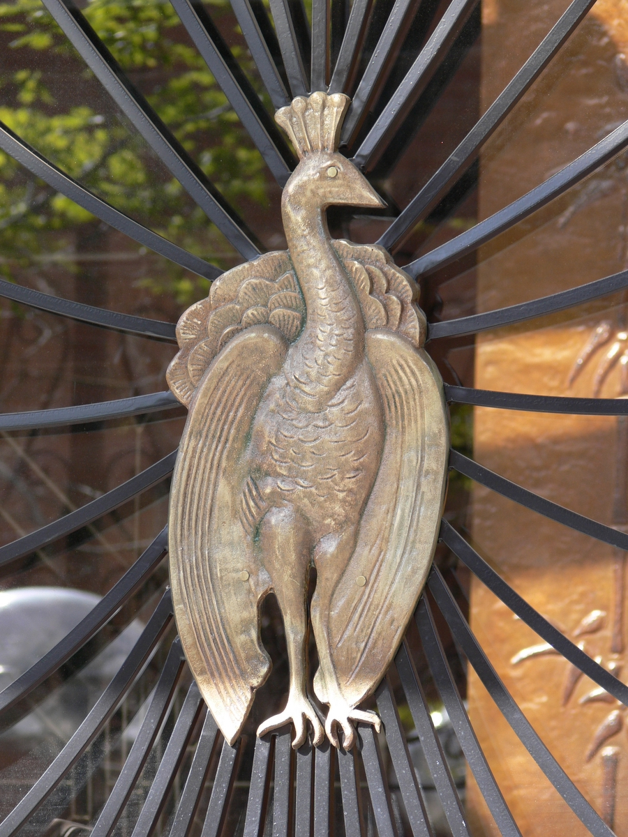 The image was personally taken by me in April 2006. Wars 00:09, 26 May 2006 (UTC)